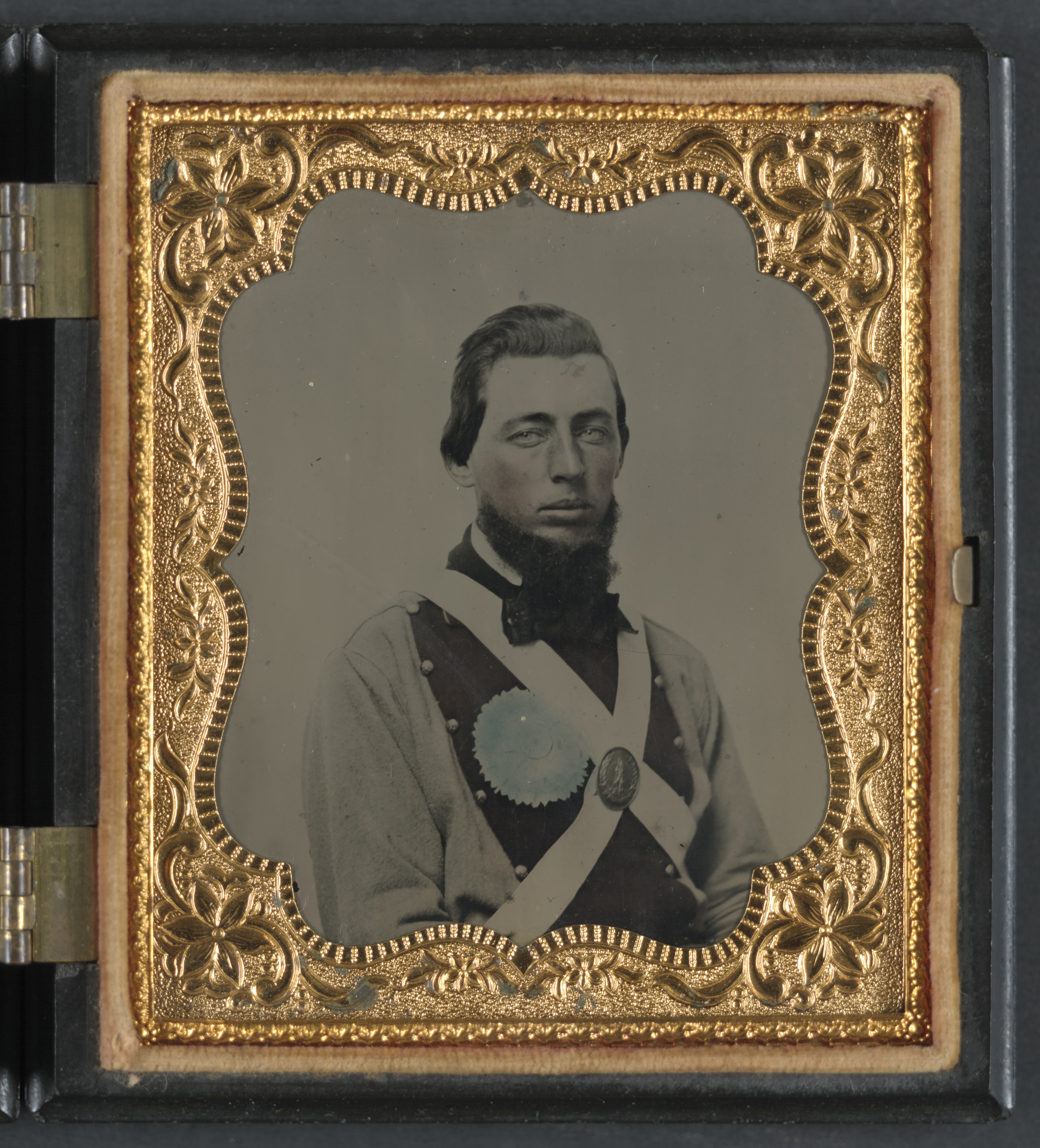 Title: Private Peter S. Arthur of Company B, 11th Virginia Infantry Regiment, in uniform with secession badge and Virginia state seal breastplate Abstract/medium: 1 photograph : sixth-plate tintype, hand-colored ; 9.9 x 8.7 cm (case)